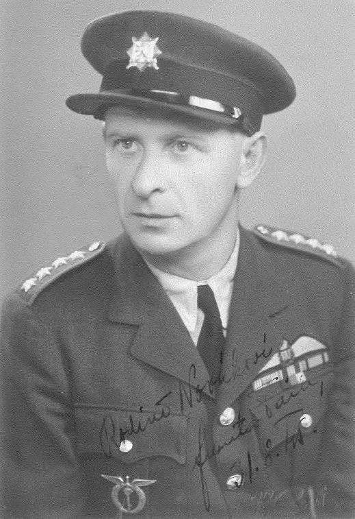 Franišek Taiber as Czechoslovak airforce captain after WWII